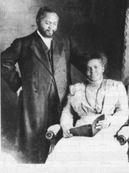 Seymour and his wife, Jennie. Published in the mid 19-teens. Image from and is in the public domain.